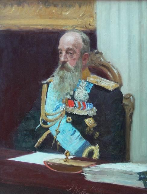 Portrait of the Chairman of the State Council Grand Prince Mikhail Nikolayevich Romanov. Study for the picture Formal Session of the State Council